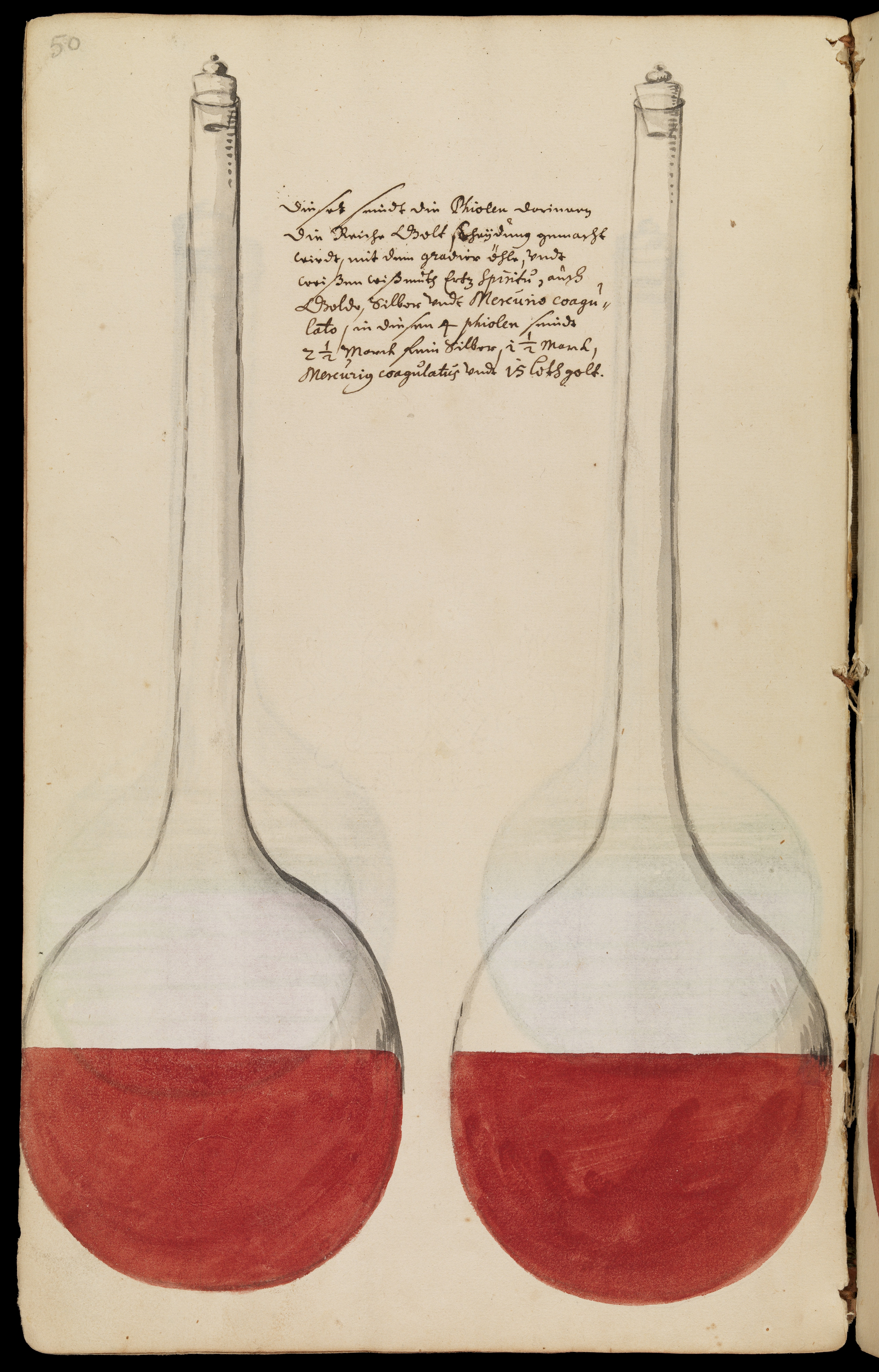 Von der Universal Tinctur. Author's holograph MS. Illustrated with 50 large drawings in water-colour or wash, one double-page and six full-page, of furnaces and alchemical apparatus, flasks, etc. The dedication to the Princess of Brandenburg is signed 'Christian Wilhelm, Baro von Krohnemann. Actum Bayreuth den 10 Augusti. 1677'. Produced in Bayreuth. Folio 50 Archives & Manuscripts Keywords: Alchemy